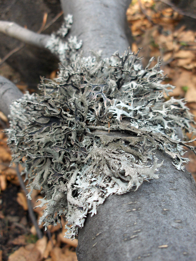 Lichen, probably Pseudevernia furfuracea, on a fallen tree